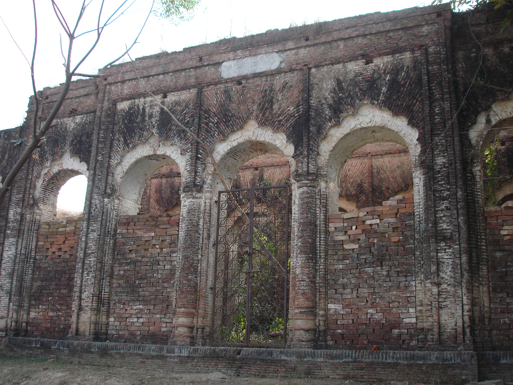 Imambara Ghufran M'aab, Nasirabad, Raibareli